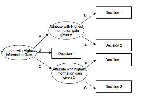 Potential ID3-generated decision tree. Attributes are arranged as nodes by ability to classify examples. Values of attributes are represented by branches.